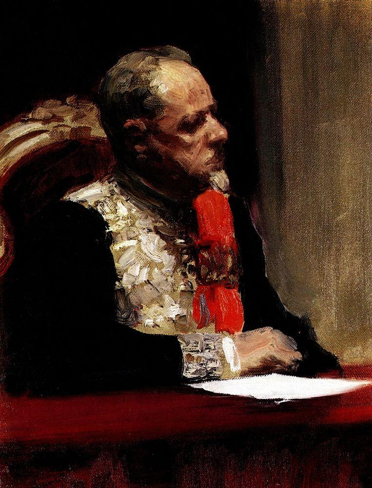 Portrait of Minister of Ways of Communication and member of State Council, Prince Mikhail Ivanovich Khilkov. Study for the picture Formal Session of the State Council. Oil on canvas. 58.5 × 49 cm. The State Russian Museum, St. Petersburg.